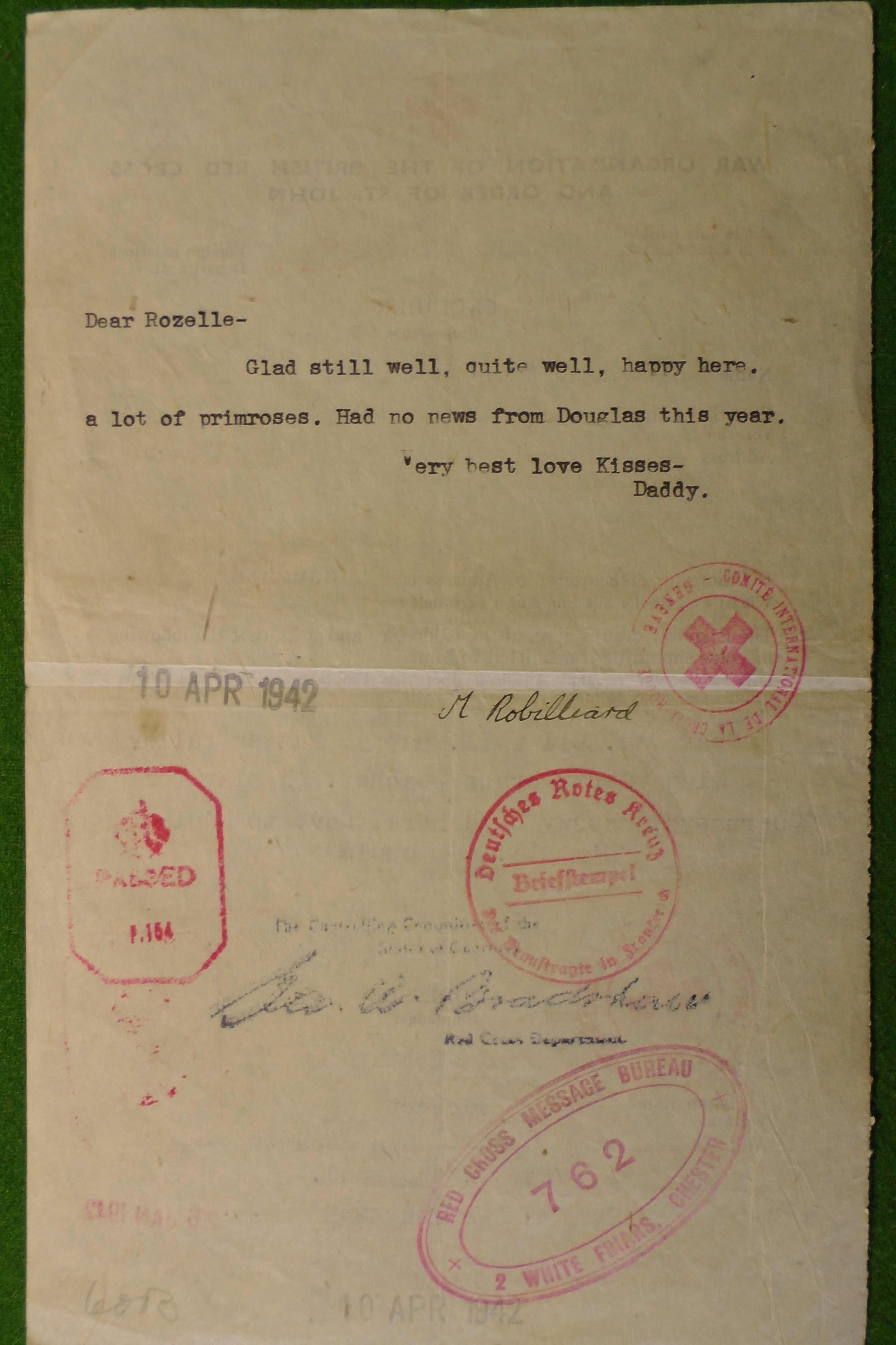 1941 Red Cross letter from Guernsey, reply